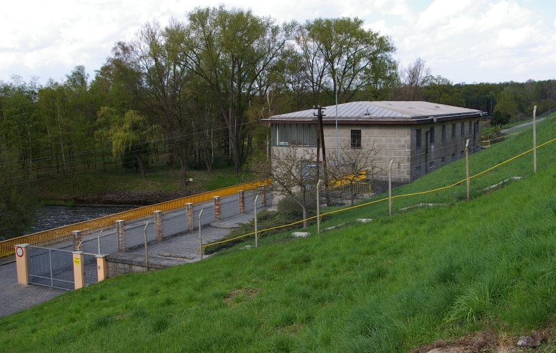 Hydroelectric power plant at Turawa Dam, Opole Voivodship, Poland. 2 May 2006.